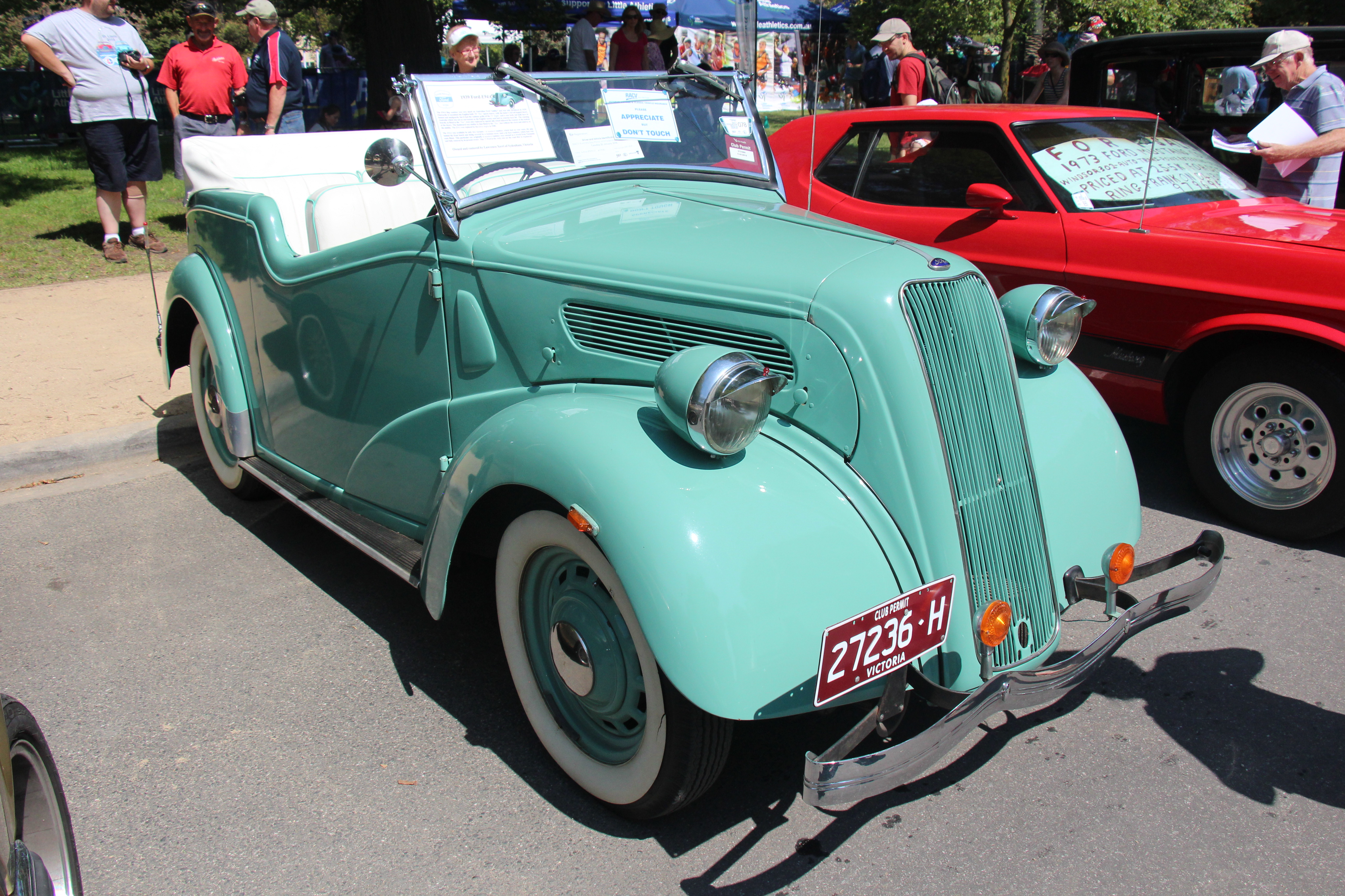 1939 Ford 8hp E94A Roadster. This model was produced only in 1939. Small 4 cylinder Fords were built in this style from 1937-59, they replaced the Model C Ford 10. Mainly built in the UK, but from 1939, in Australia as well. Many different models were built over the years, from 1938, generally the Anglia was the 2 door and the Prefect was the 4 door; The 1937-38 7W Ten was the first, in 2 or 4 door Saloon. 1938-49 UK built E93A Prefect, E04A Anglia. 1939-45 Oz built E03A Prefect, the roadster was the E94A 1946-48 Oz built A53A Prefect, A54A Anglia. 1949-53 UK built E493A Prefect, E494A Anglia 1949-53 Oz built A493A Prefect, A494A Anglia. 1953-59 UK and Oz built 103E Popular In 1953 the new lower, more modern 100E was released, but the 103E Popular, the old shape, continued on as a budget model. The E93A Prefect, replaced the 7W, it got a restyled grille with horizontal bars and central division, the headlights were still on top of the guards. Australian versions, the E03A, had an all steel roof and stainless steel waistline trim, whereas English cars had a fabric insert in the roof. This is the Roadster version the E94A. Engine; 1172 side valve 4 cyl